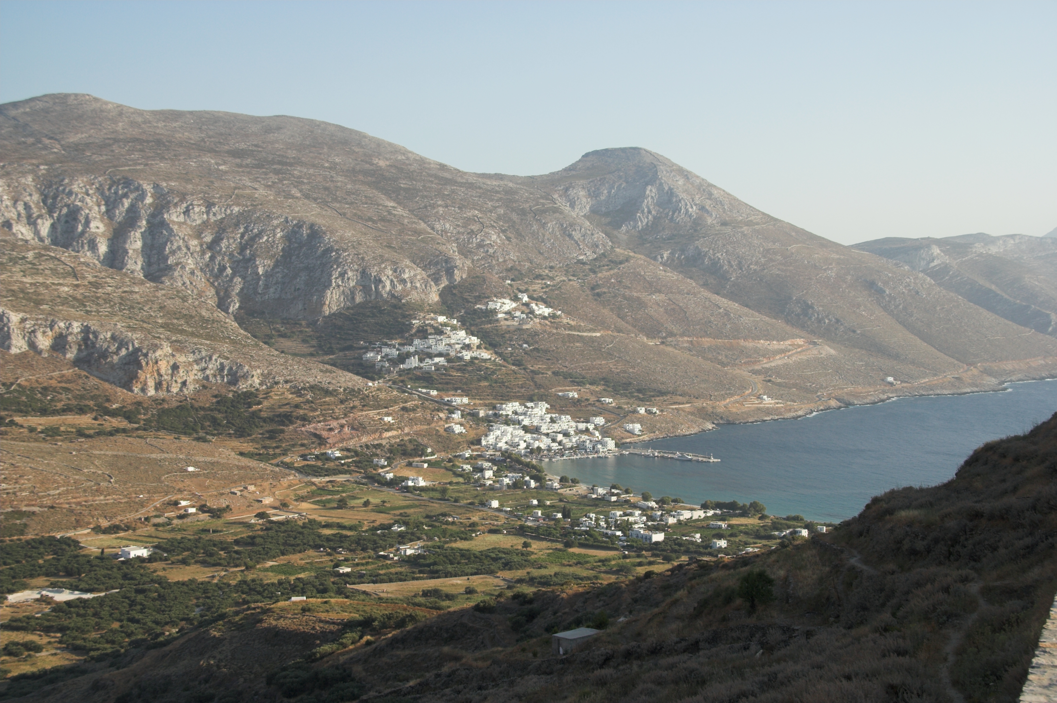 Ormos Aigiali and mountains, view from Tholaria, Amorgos